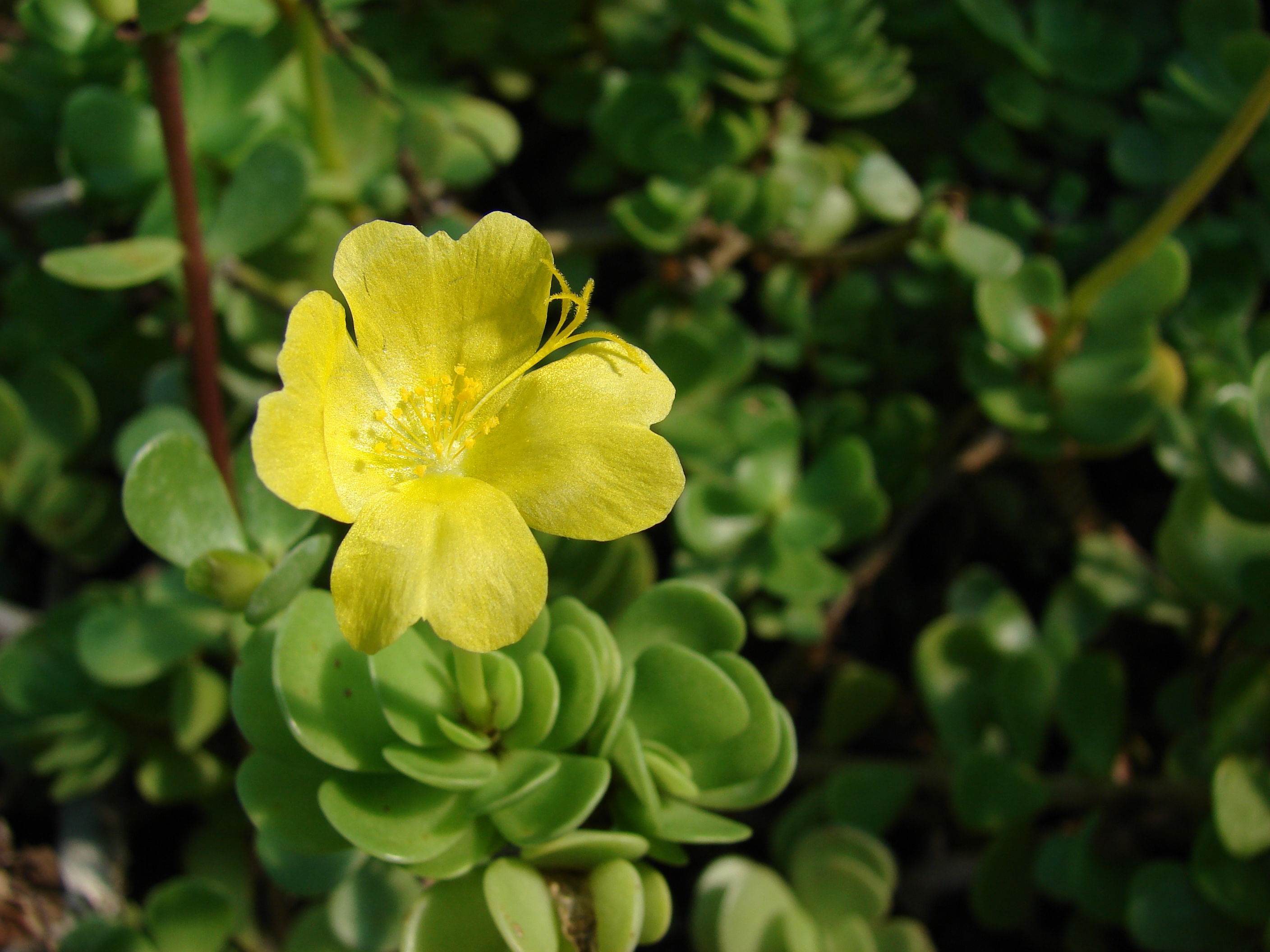 Portulaca molokiniensis (flower). Location: Maui, Hoolawa Farms Haiku